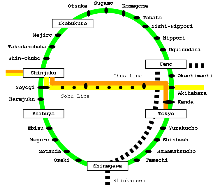 Stations on Yamanote Line. Click image for enlargement.